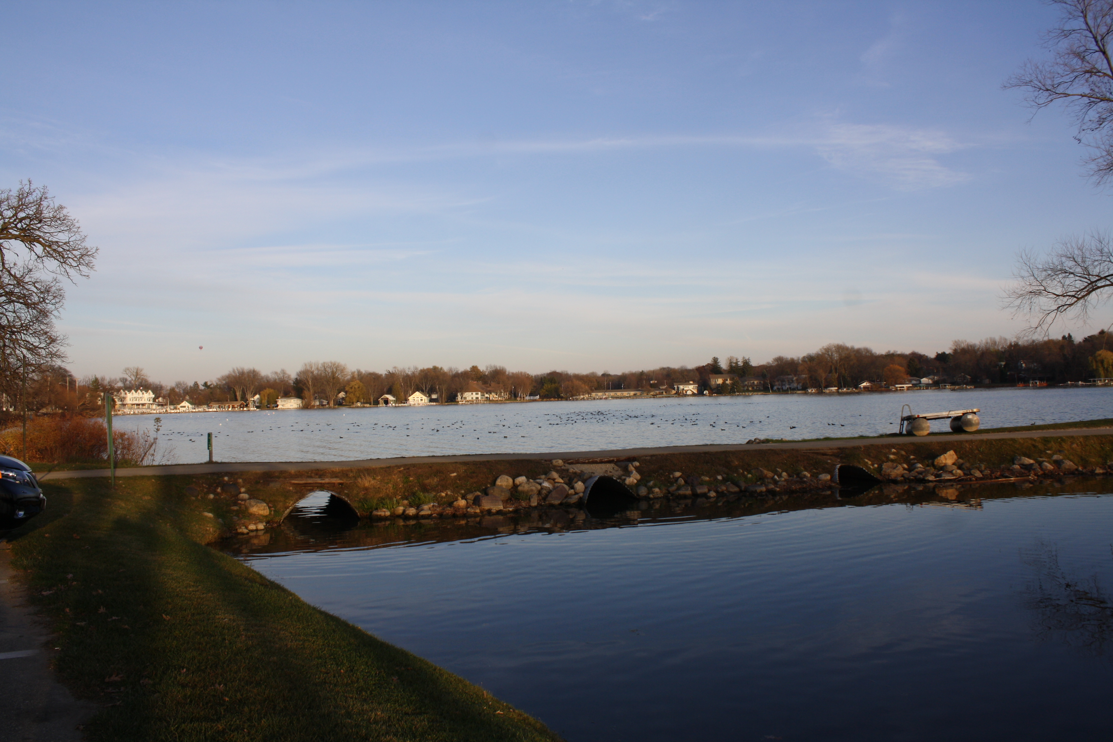 Looking northeast at a panarama of Green Lake, Wisconsin over Big Green Lake.